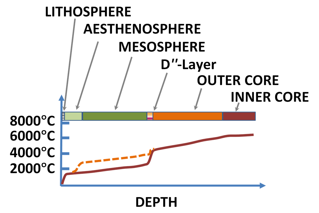 Temperature profile of Earth's interior